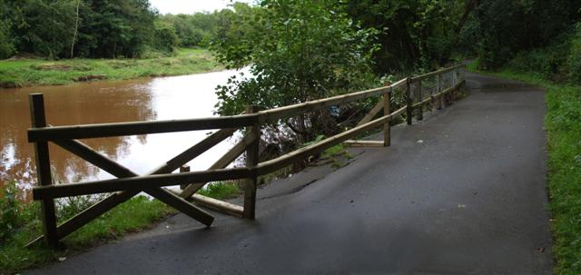 Emergengy fence, River walk, Omagh. Part of the pathway has collapsed into the river and some protection has been installed to prevent an accidental tumble into the water.